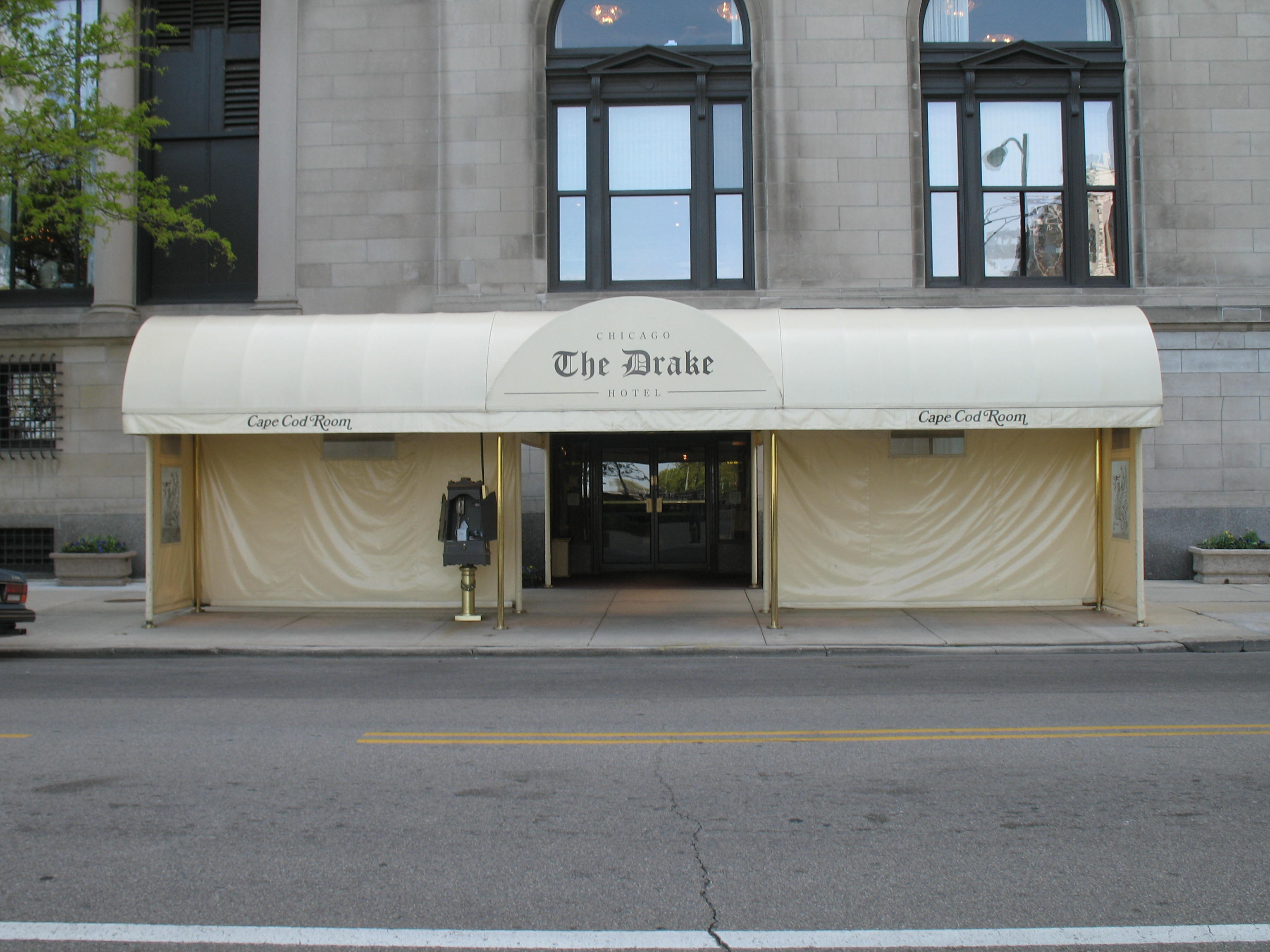 Drake Hotel (Chicago) Cape Cod Room